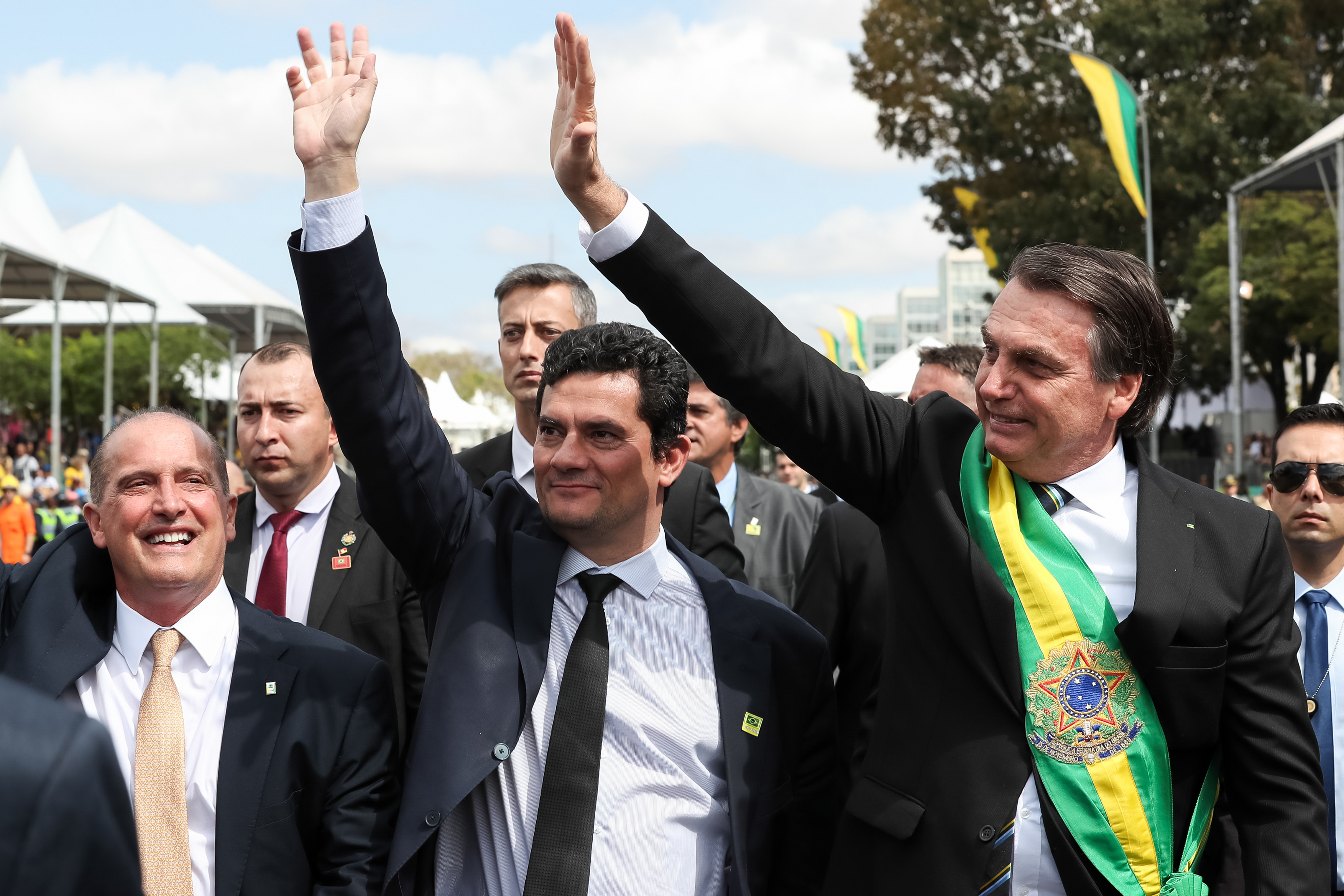 (Brasília - DF, 07/09/2019) Desfile Cívico por ocasião do Dia da Pátria. Foto: Marcos Corrêa/PR